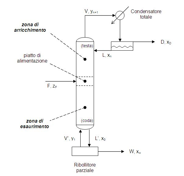 Schematic drawing of a distillation column, with partial reboiler and total condenser.